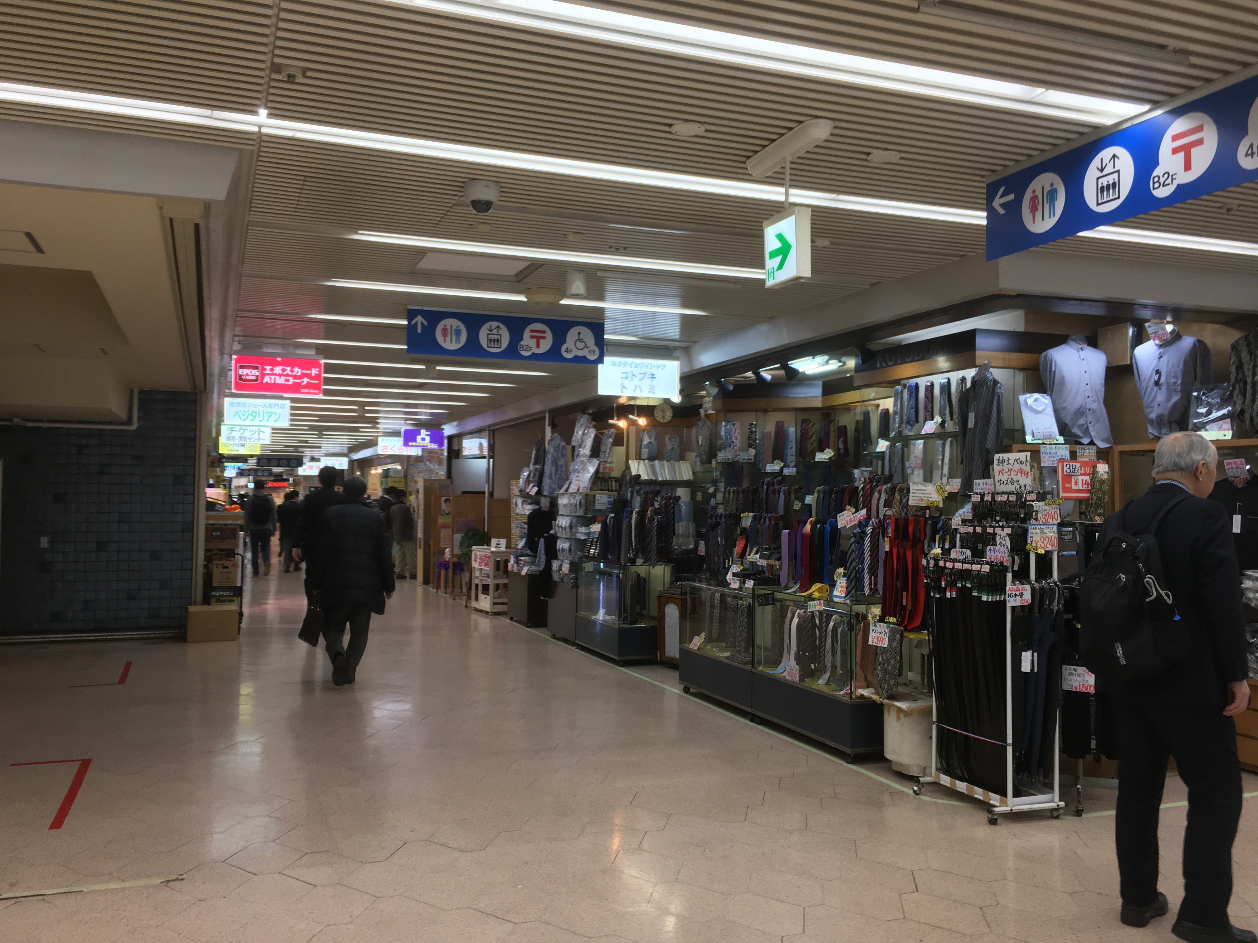 ニュー新橋ビルの中 (inside new Shimbashi building)